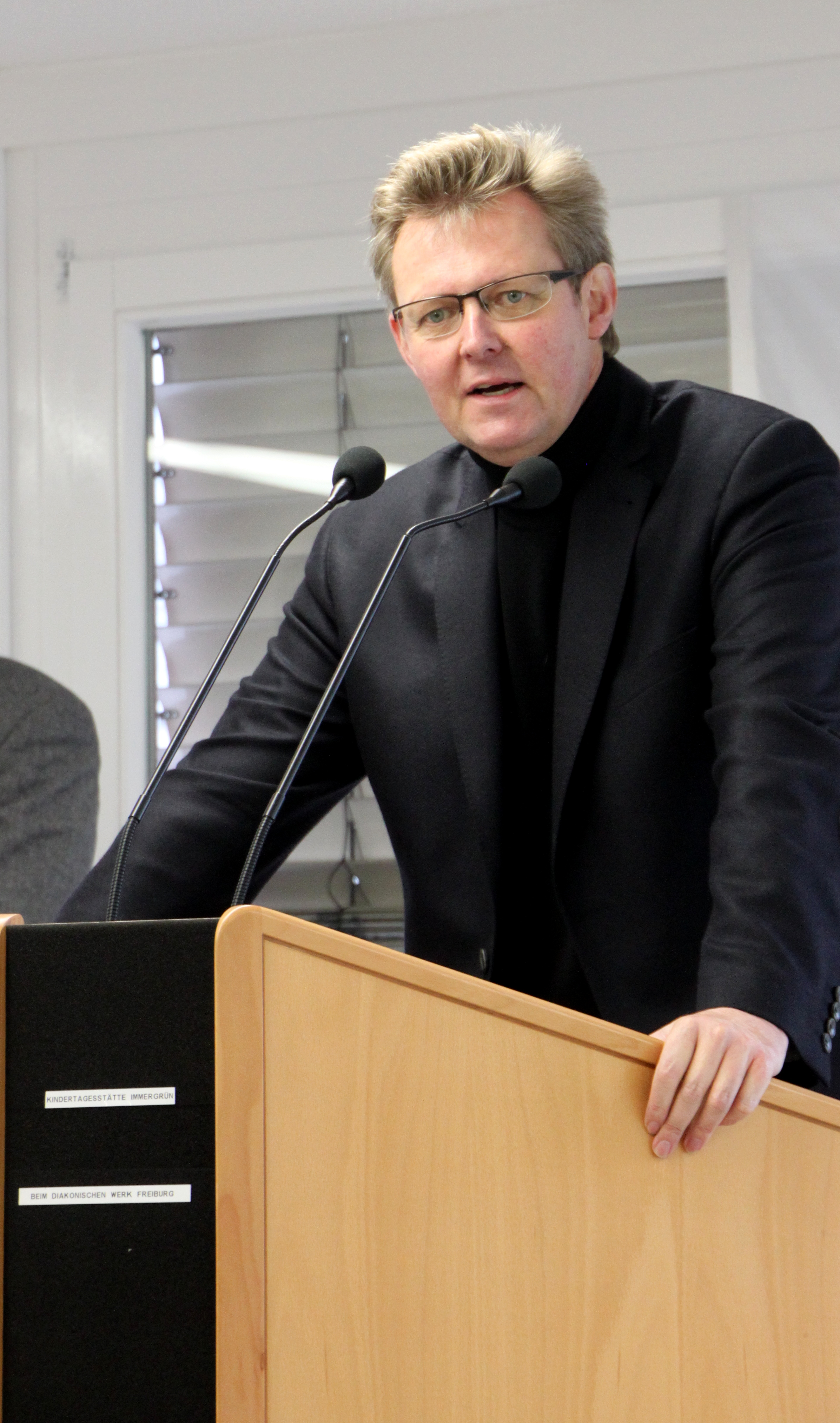 Ulrich von Kirchbach (* March 28th 1956 Deggingen) is major of Freiburg im Breisgau